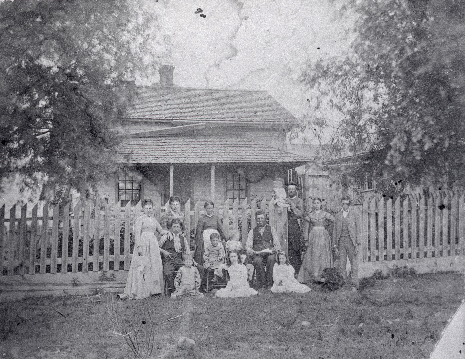 Crossan, Joseph, house, Finch Ave. W., n.w. cor. Jane St. Original caption: "Mount of photograph inscribed on vso: ca 1878 / Joseph Crossan & family /-old homestead at / Emery. Date Created year approximate for 1878?"